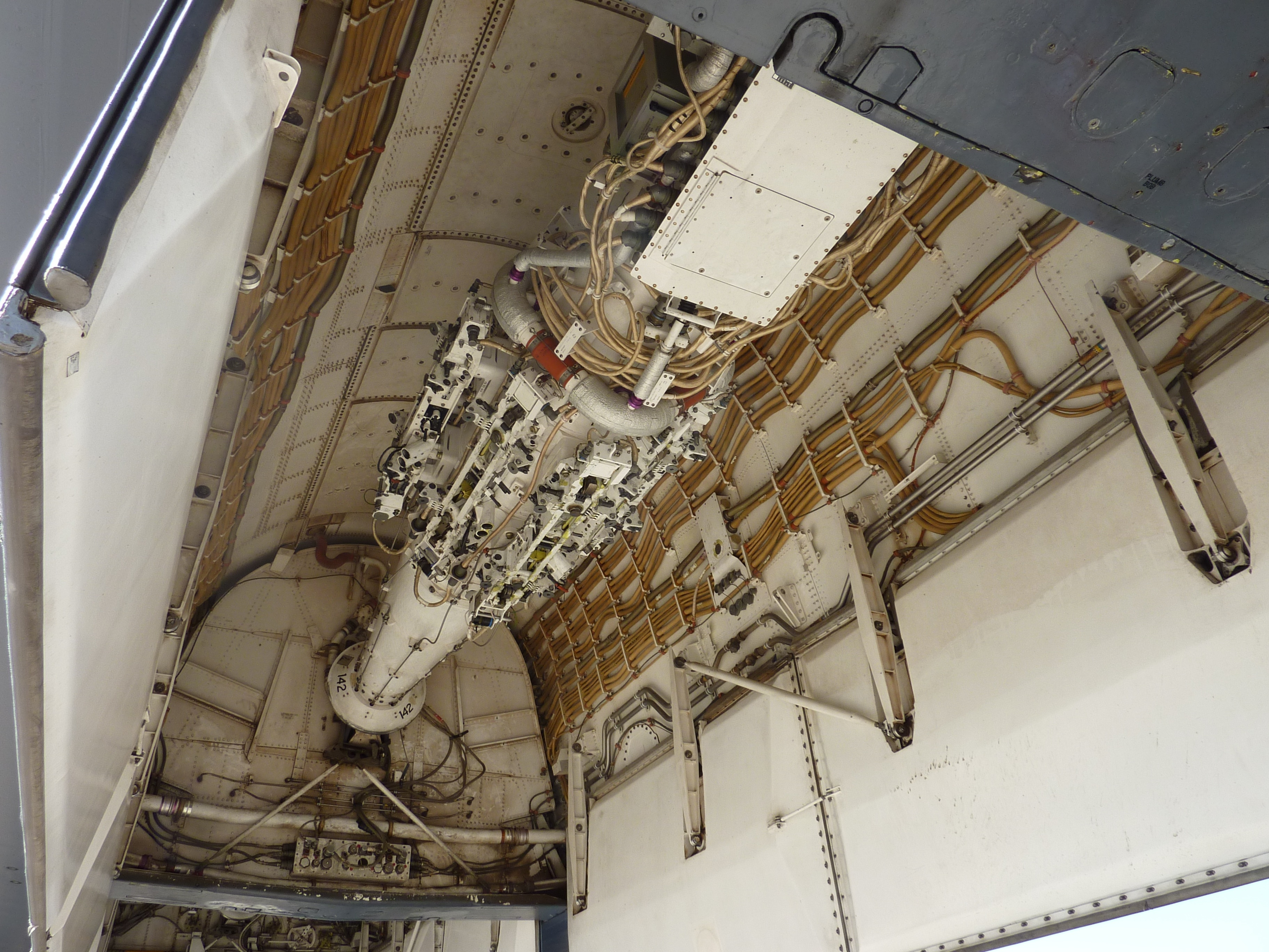 The forward bomb bay of a Rockwell B-1 Lancer, displayed at the CAF's AIRSHO 2010.